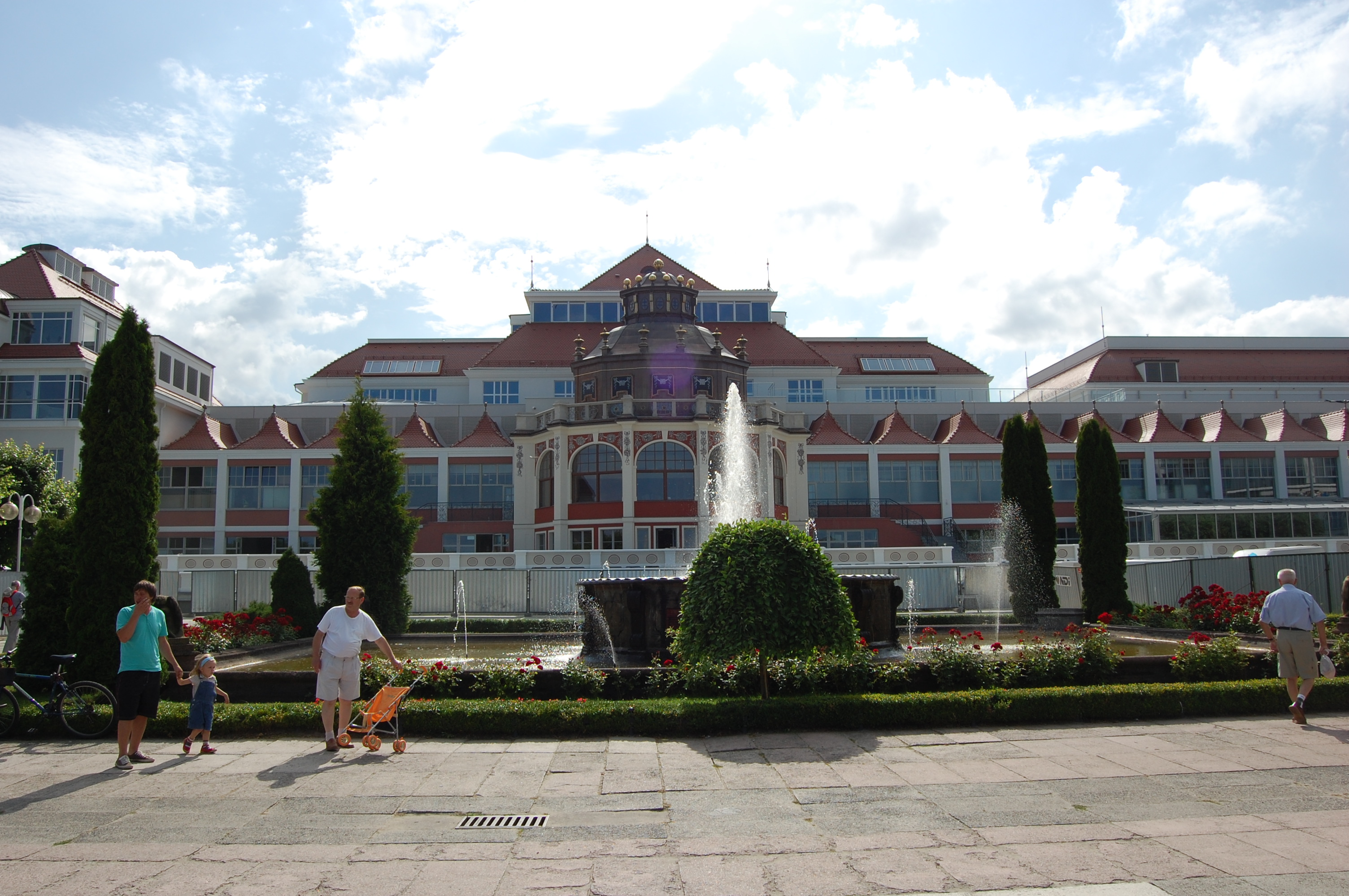 Spa House in Sopot